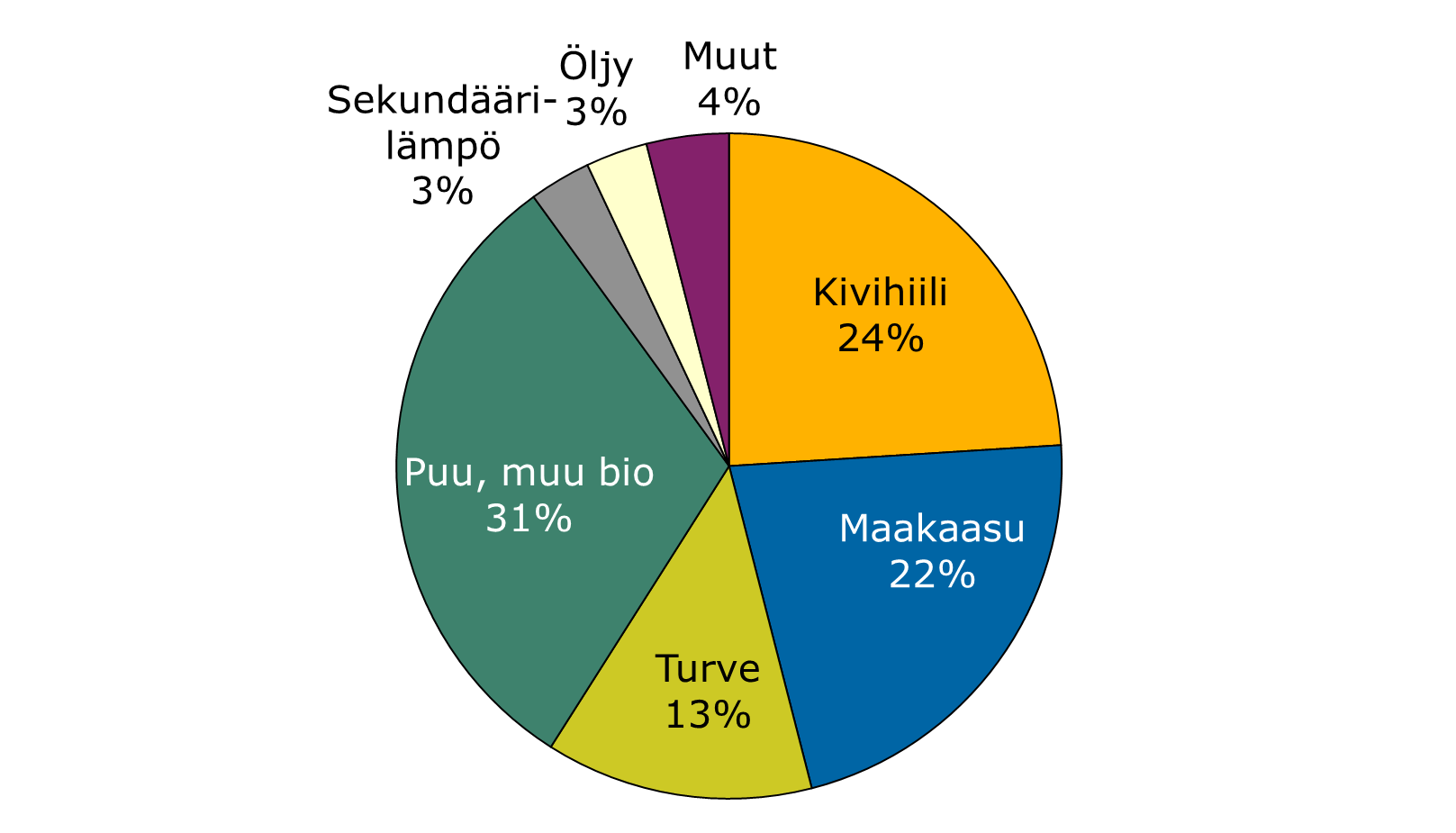 Fuel distribution of combined heat production in Finland 2014